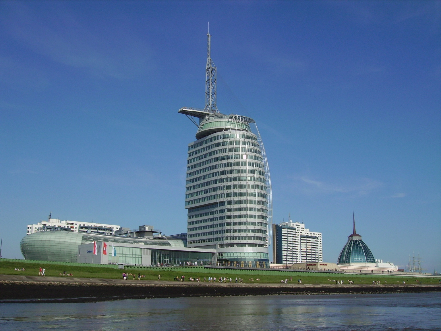 View of the Havenwelten in Bremerhaven, Germany, with the Atlantic Hotel SailCity, the Climate House and the shopping centre mediterraneo